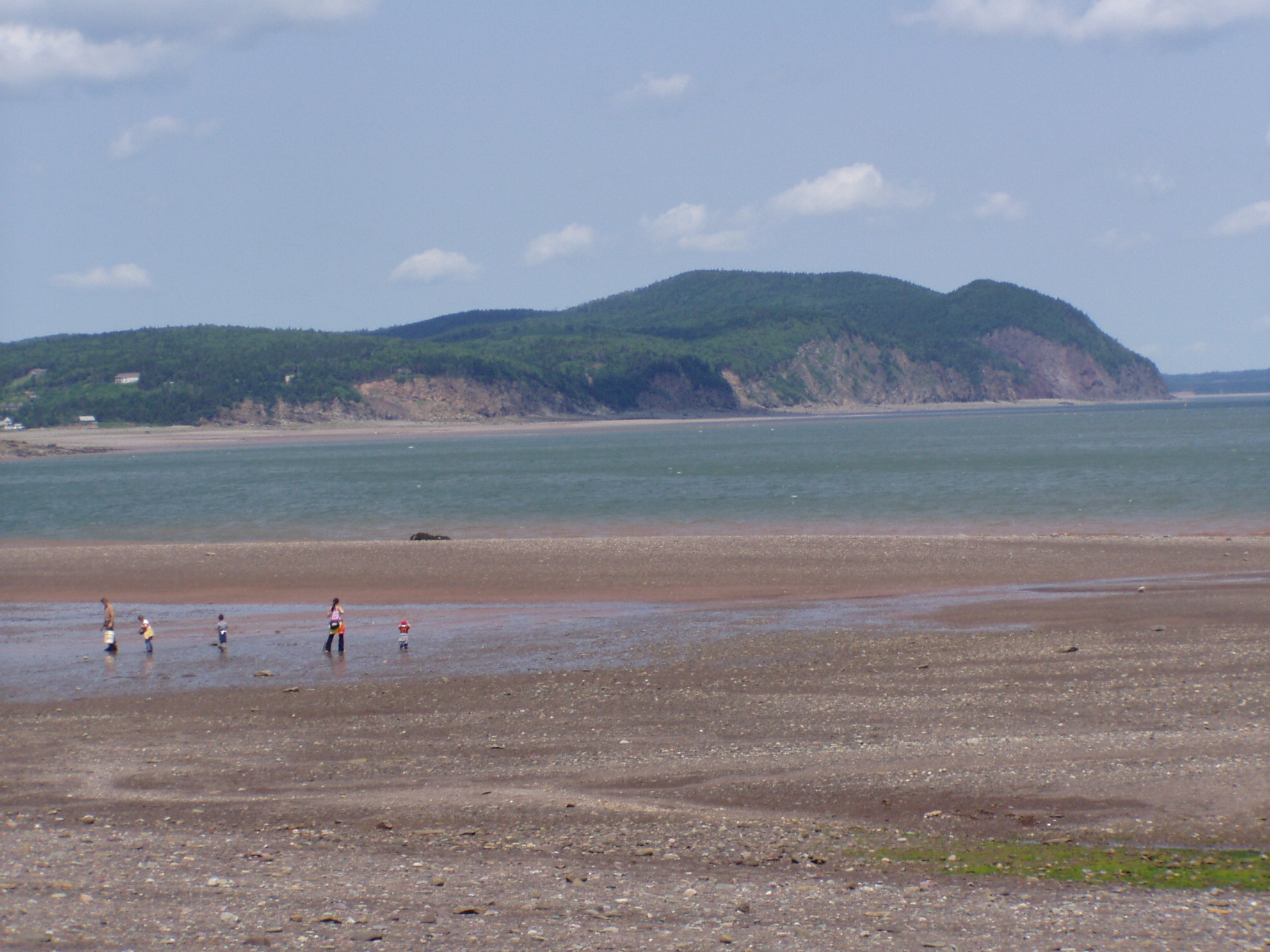 Alma beach at low tide. Fundy National Park of Canada, New Brunswick. Photo taken in July 2004 by myself, Danielle Langlois.